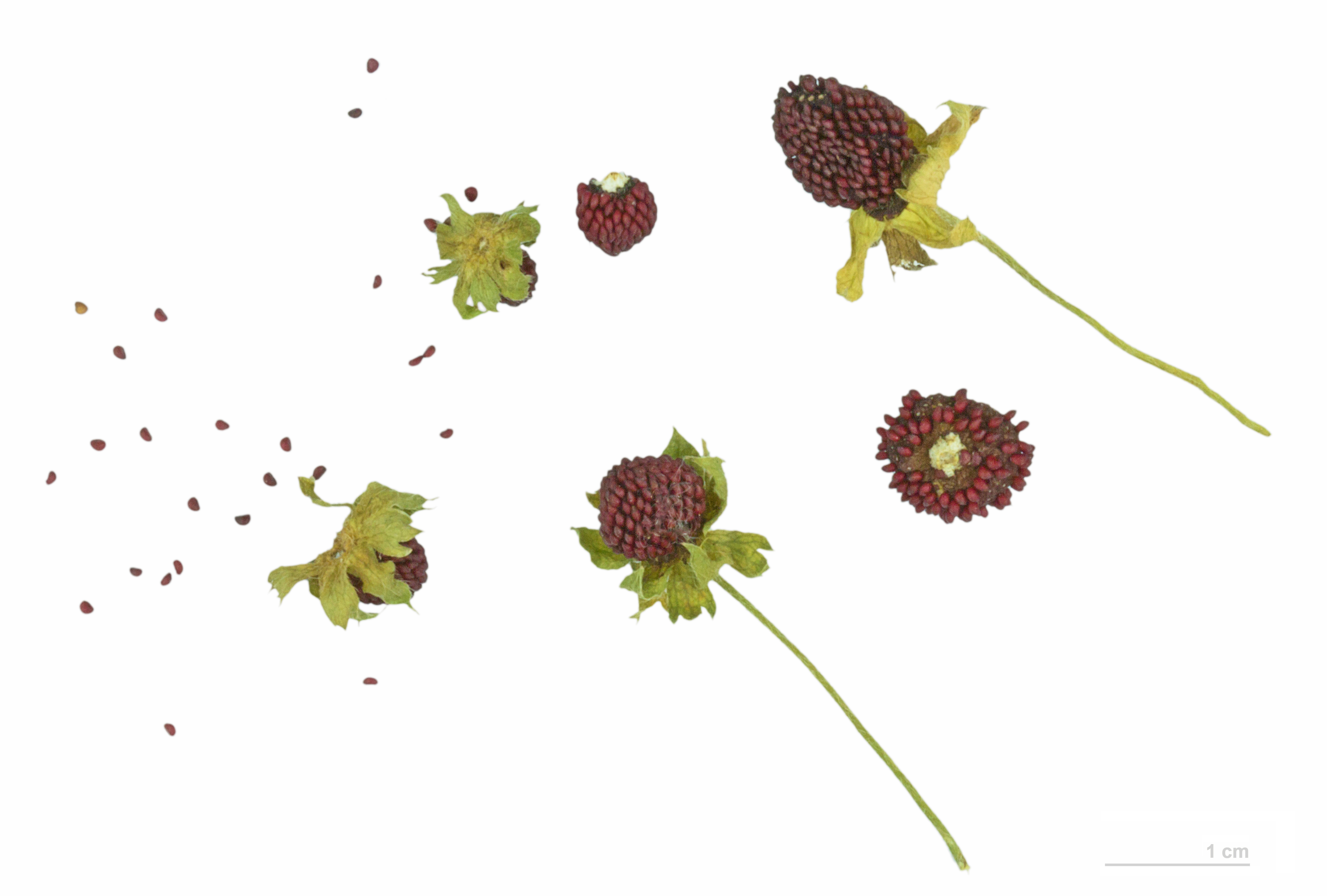 Potentilla indica , fruits and seeds